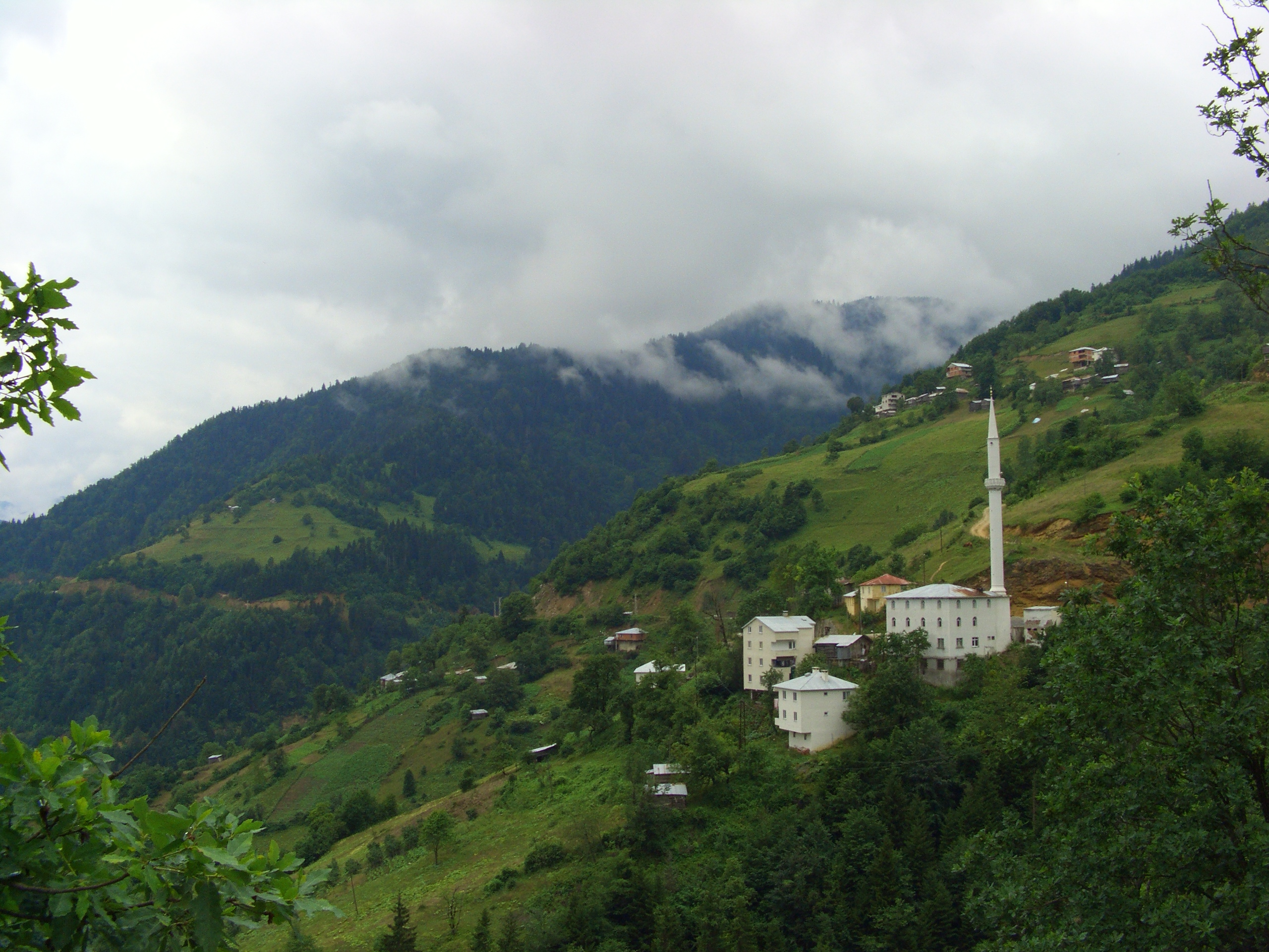 Pinarlar (means springs in eng.), a village of Dereli district of Giresun Province located in Black Sea Region of Turkey.